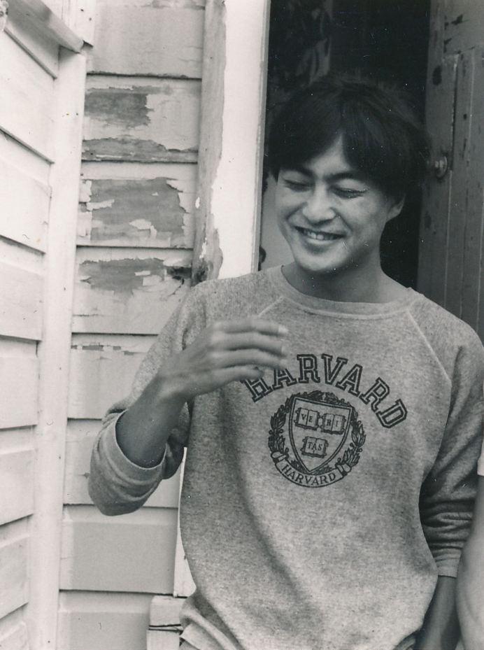 Ichiro Kawachi photographed outside his student flat in Wellington, New Zealand, in the early 1980s. uploaded by Tahatai (talk) 03:55, 24 July 2019 (UTC) photographed by Tahatai (talk) 03:55, 24 July 2019 (UTC)